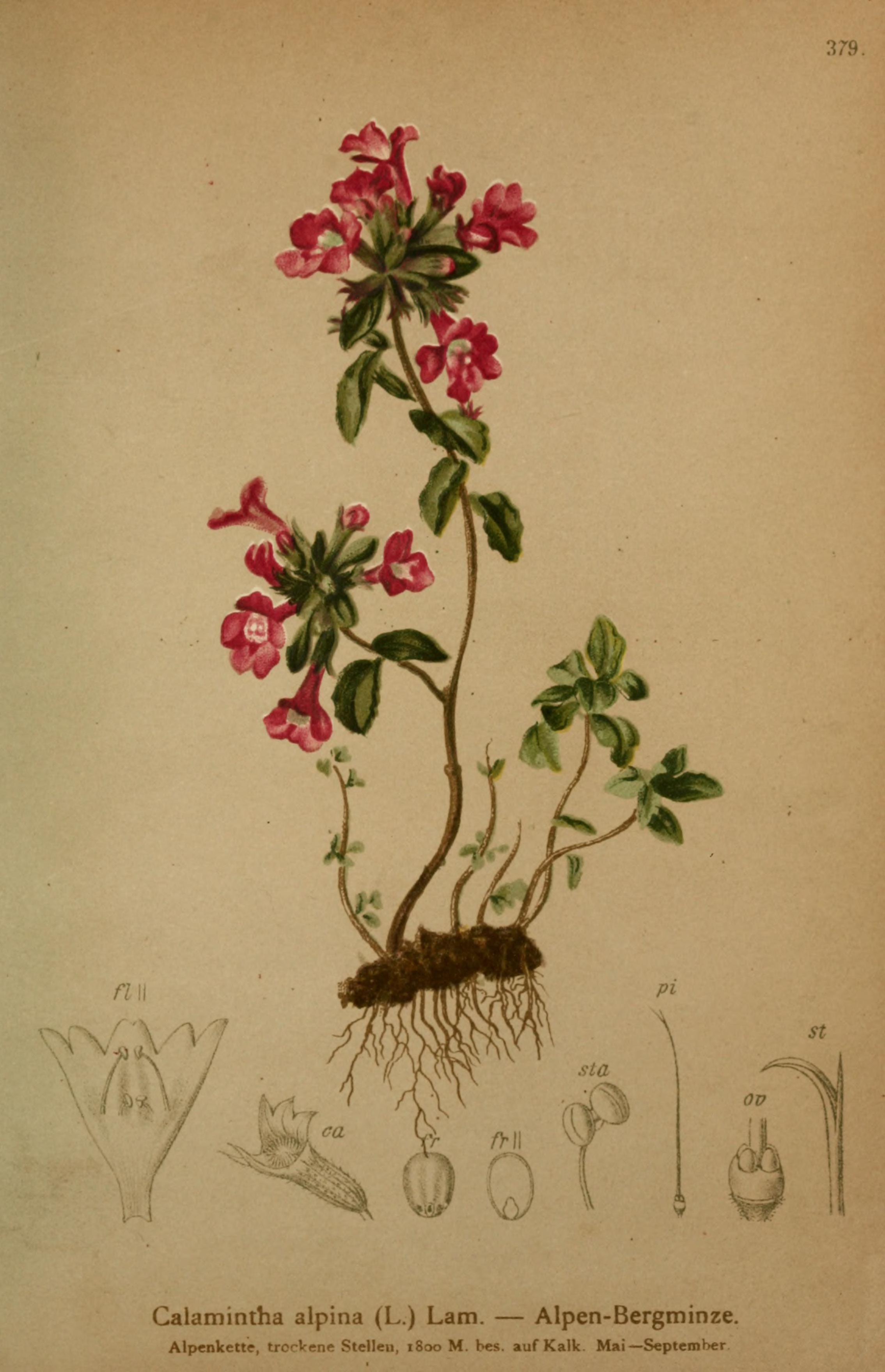 Title: Atlas der Alpenflora Year: 1882 (1880s) Authors: Hartinger, Anton, b. 1806 Dalla Torre, K. W. von (Karl Wilhelm), 1850-1928 Deutscher Alpenverein (Founded 1874) Subjects: Mountain plants Publisher: Wien : Eigenthum und Verlag des Deutschen und Oesterr. Alpenvereins Text Appearing Before Image: ' Text Appearing After Image: st ; i Calamintha alpina (L.) Lam. — Alpen-Bergminze. Alpenkette, trockene Stelleu, 1800 M. bes. auf Kalk. Mai—September «^9tt